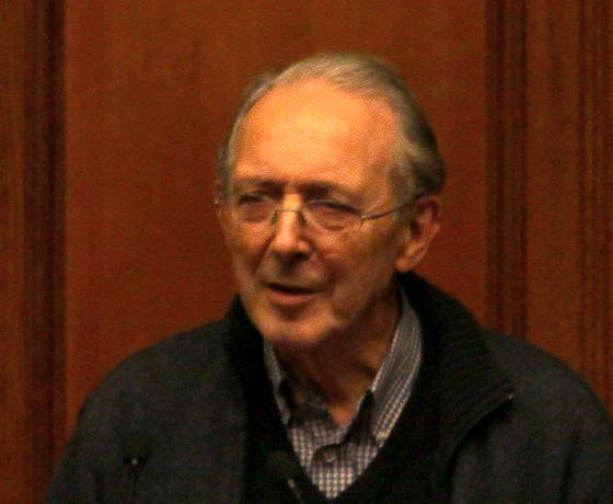 Jon Sobrino during a lecture at the University Vienna.